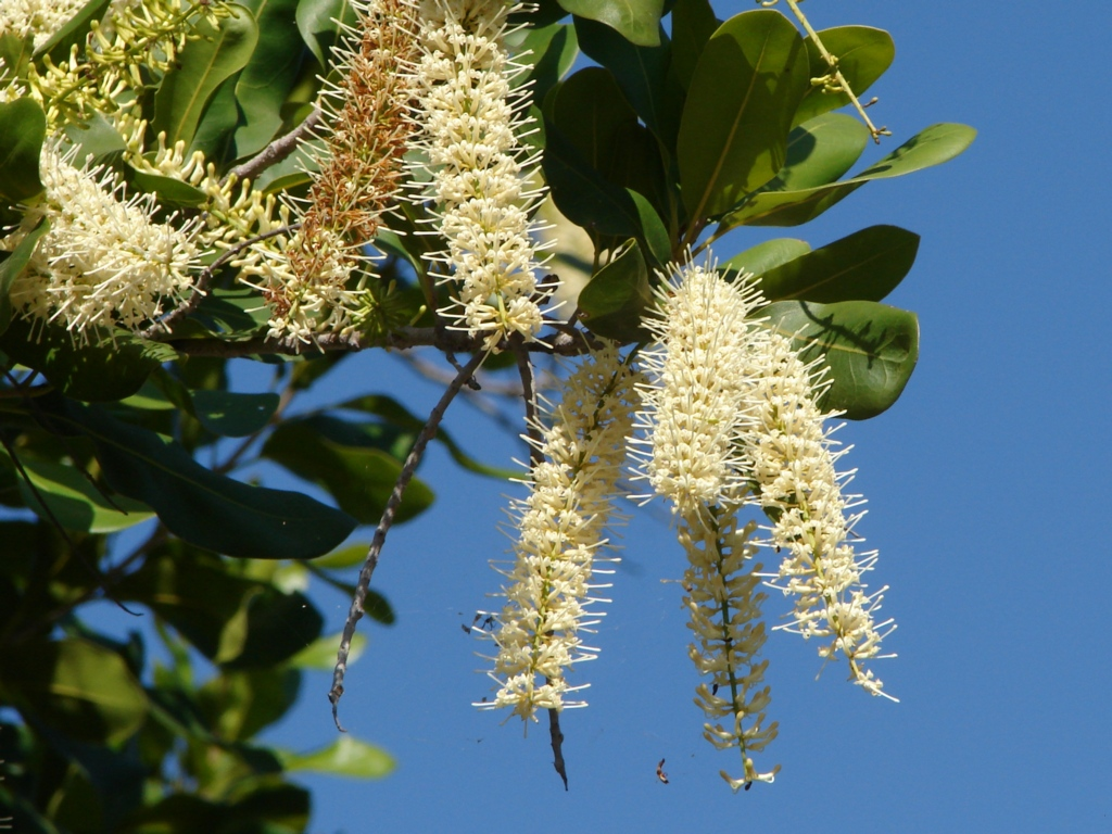 Macadamia integrifolia Queensland Nut Tree native to Queensland